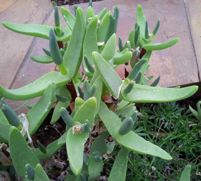 Mitrophyllum mitratum - Kirstenbosch